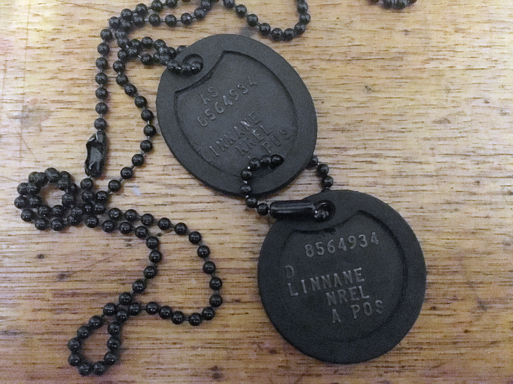 An example of dog tags as issued by the Australian Defence Force